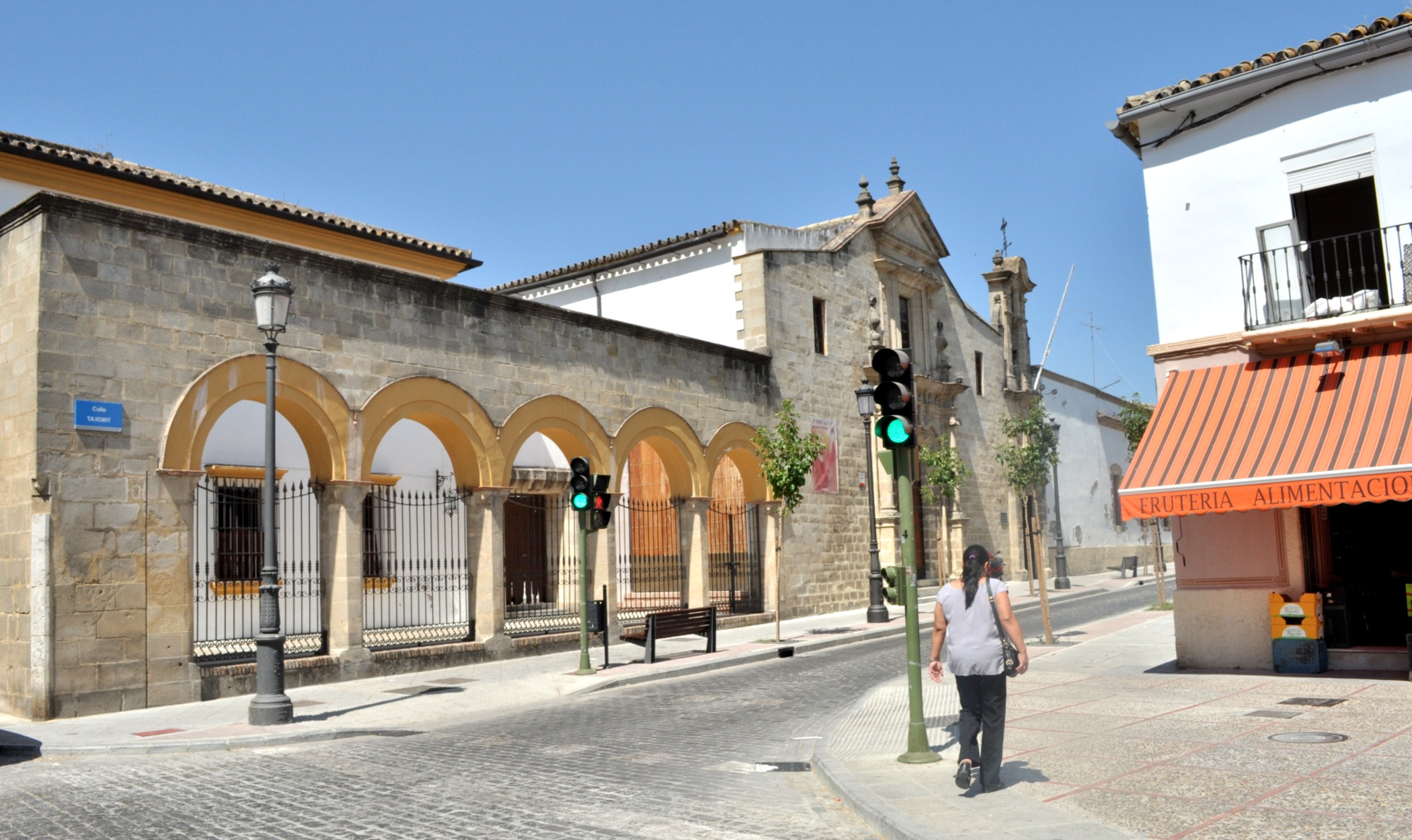 Old Hospital, Jerez